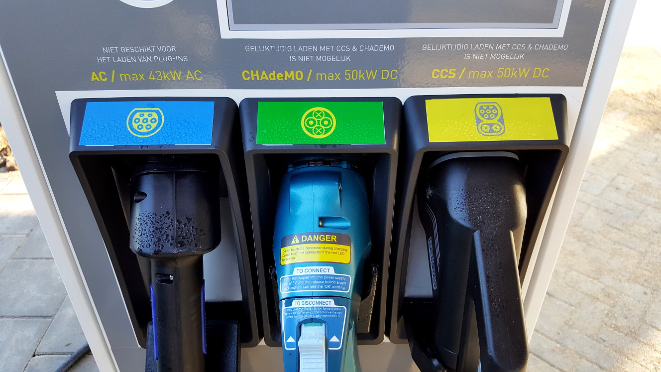 Fastcharge station with 3 plugs, Netherlands